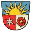 Old coat of arms of the parish of Rodau (Odenwald), now part of the City of Groß-Bieberau, Hesse, Germany